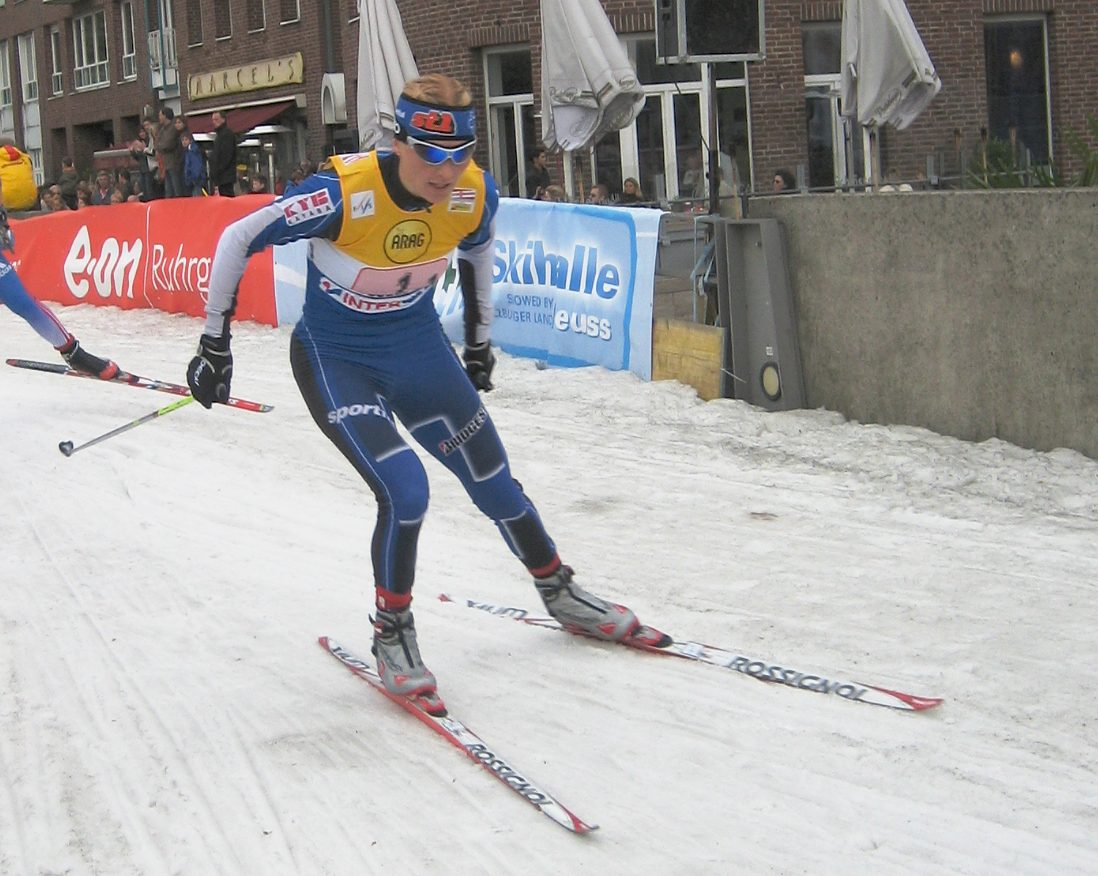 Virpi Kuitunen, Finnish cross country skier, 2006 FIS World cup in Düsseldorf, Germany, Team sprint final